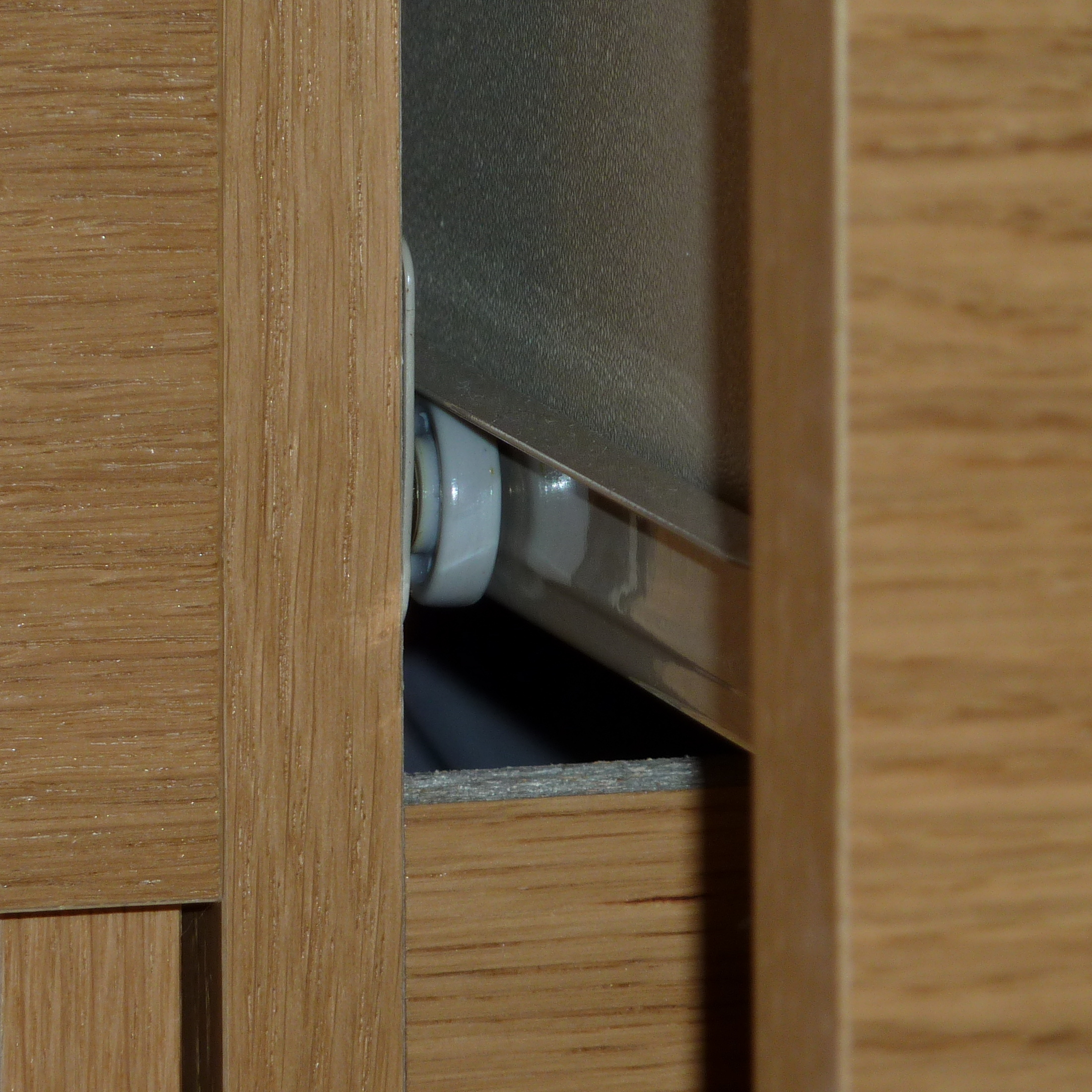 Rail guide of a drawer